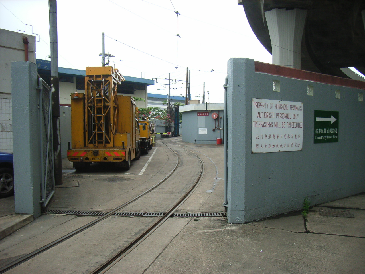 屈地街電車廠 Whitty Street, Shek Tong Tsui, HK